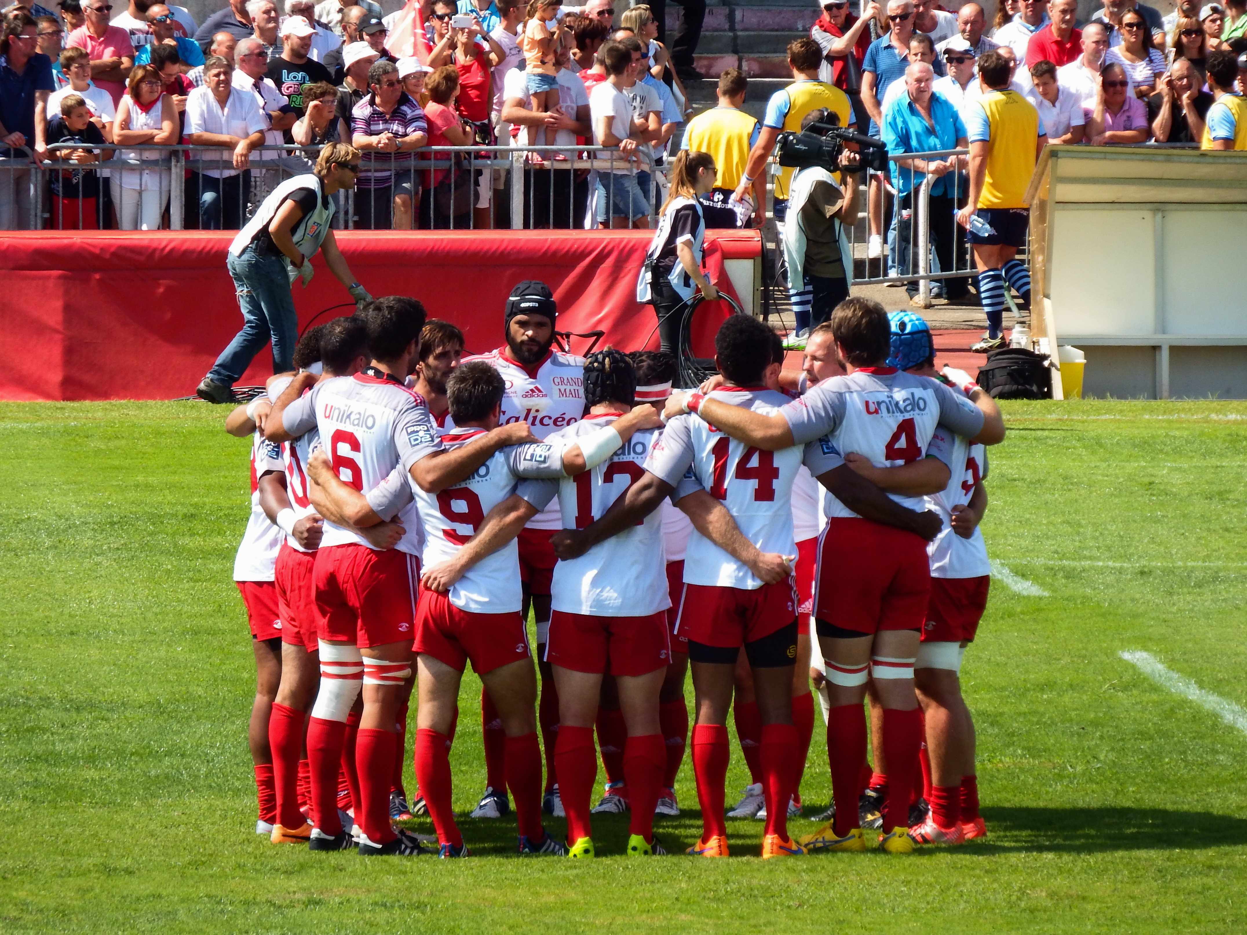 2015–16 Rugby Pro D2 season — 6 September 2015, stade Maurice-Boyau. Match between: US Dax — Aviron Bayonnais